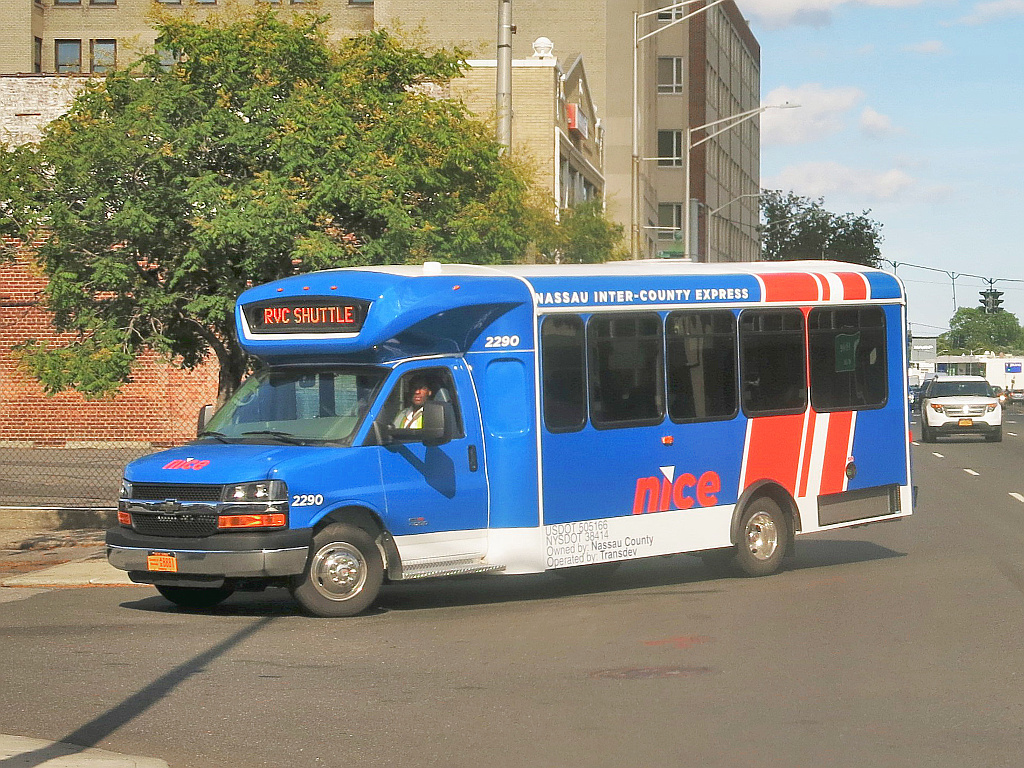 A Nassau Inter-County Express ARBOC Spirit of Mobility bus is turning into the Rockville Centre railroad station, operating the Rockville Centre Community Shuttle (formerly the n14 route). These vans are being used by NICE Bus to replace full-sized buses that previously operated this route, and to open up other new routes in southern Nassau County..